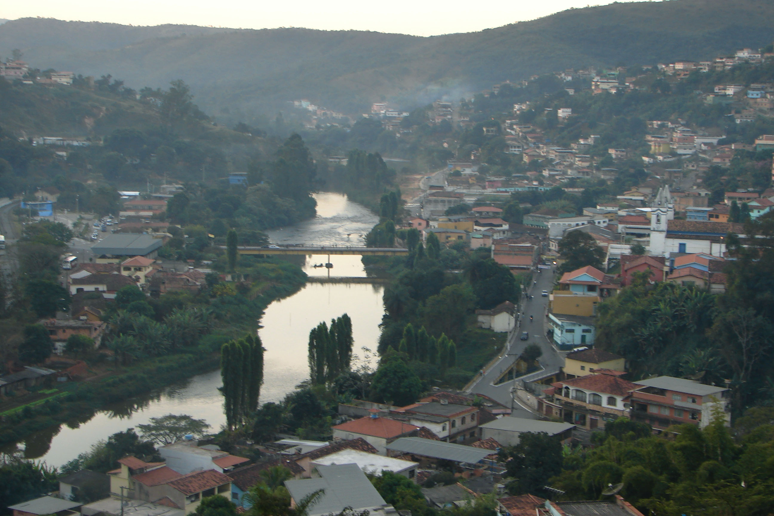 Rio das velhas Raposos